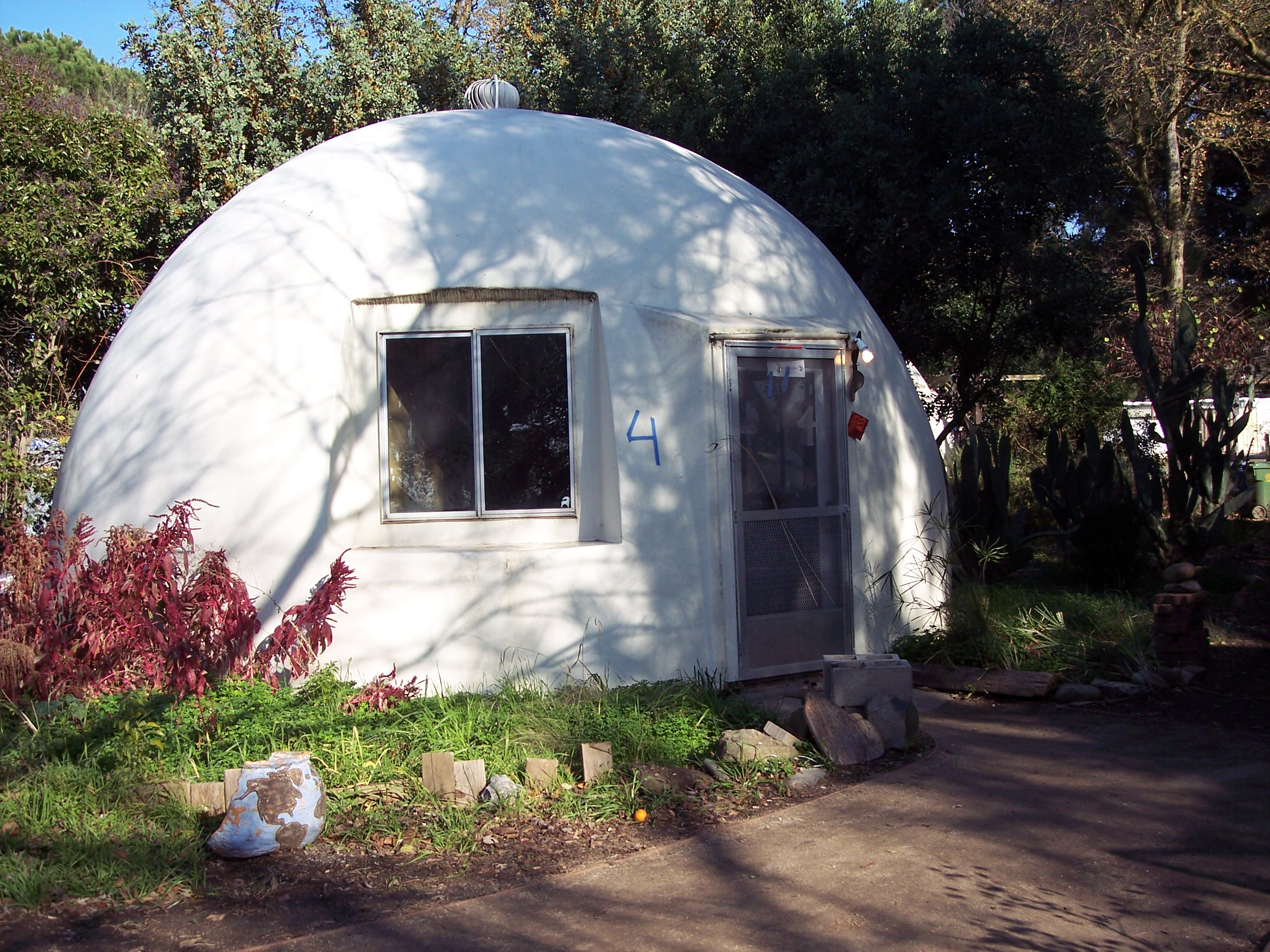 Dome 4 at Baggin's End, Davis, California. Photo taken on December 17, 2011 by Alfred Twu. Note new decomposed granite pathways installed in November 2011.